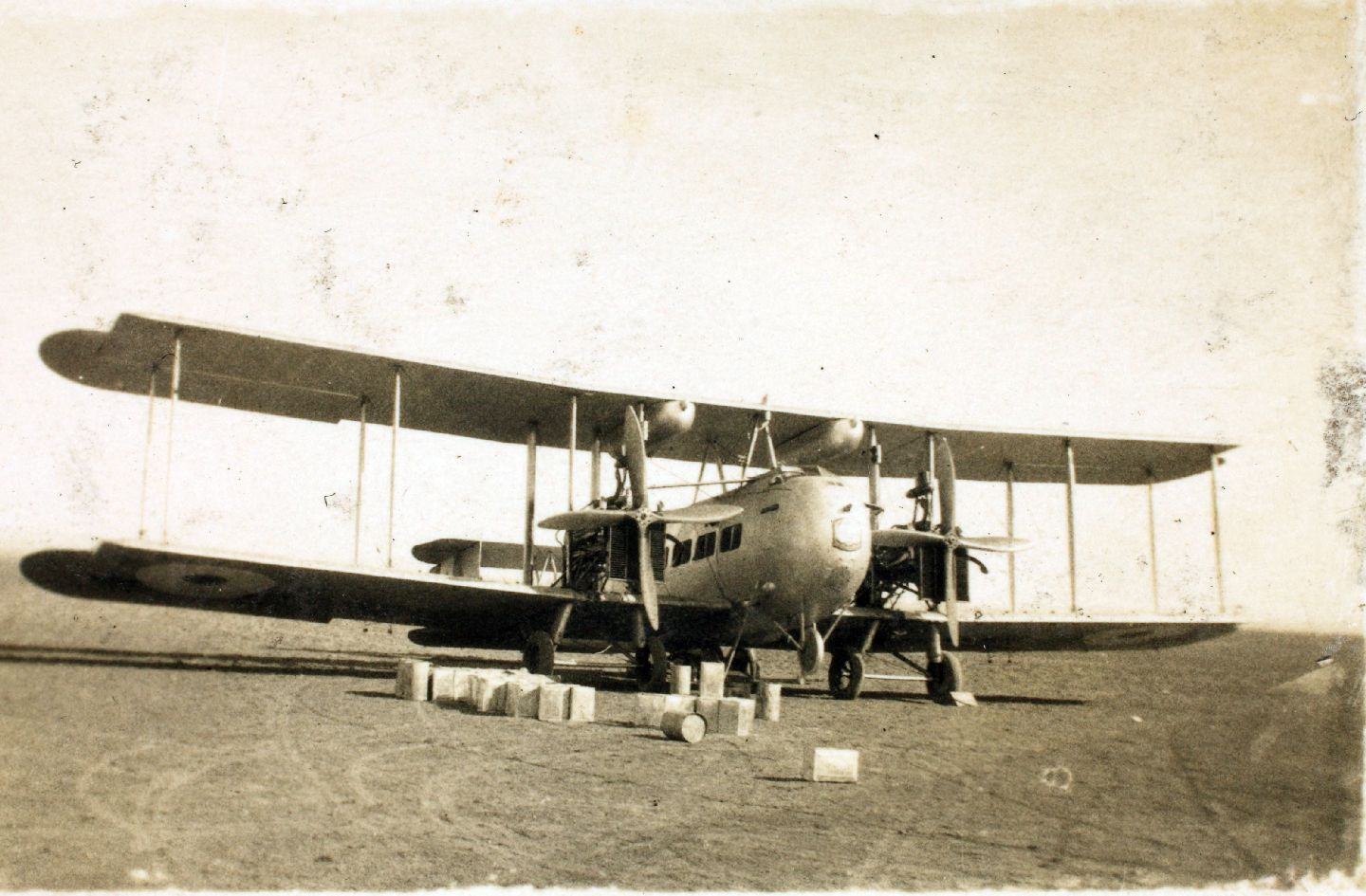 Vickers Vernon in Palestine.